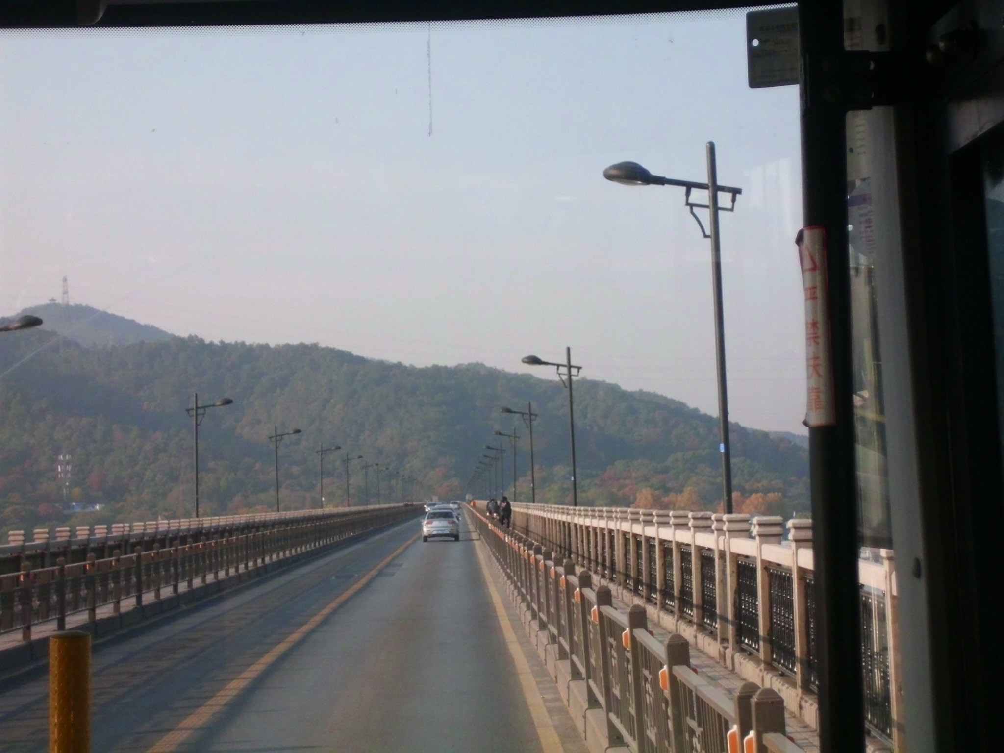 Qiantang River Bridge